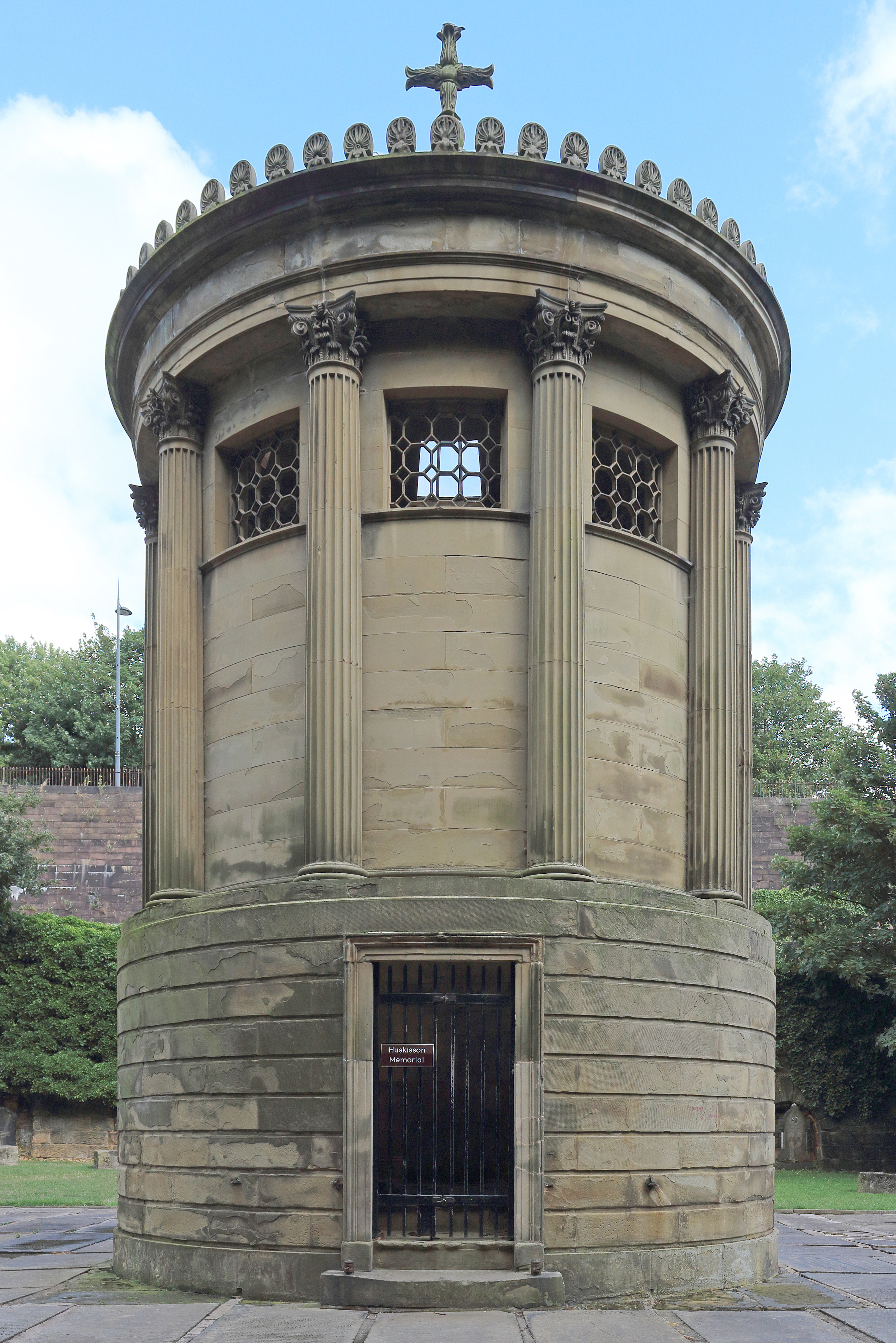 View of the front looking east towards Hope Street.